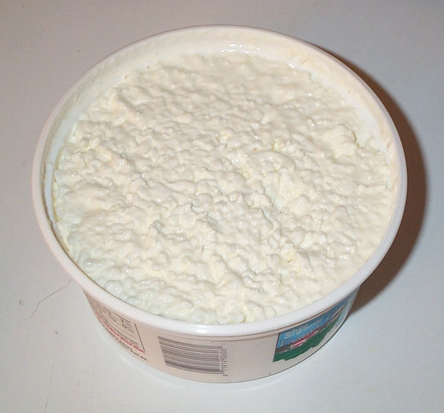 A tub of cottage cheese.